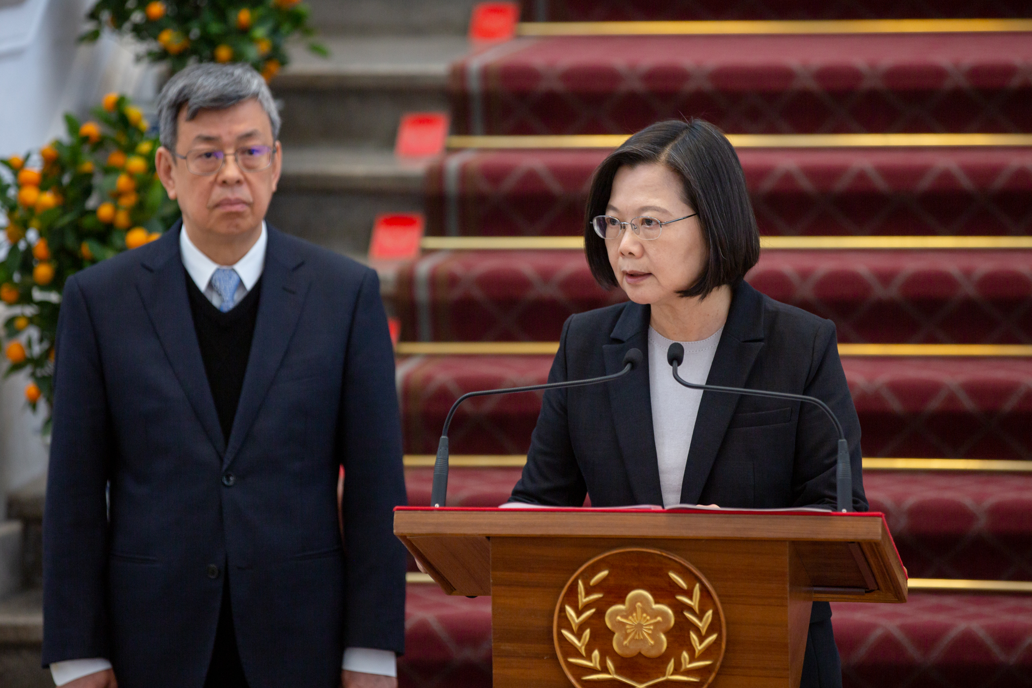 Official Photo by Wang Yu Ching / Office of the President